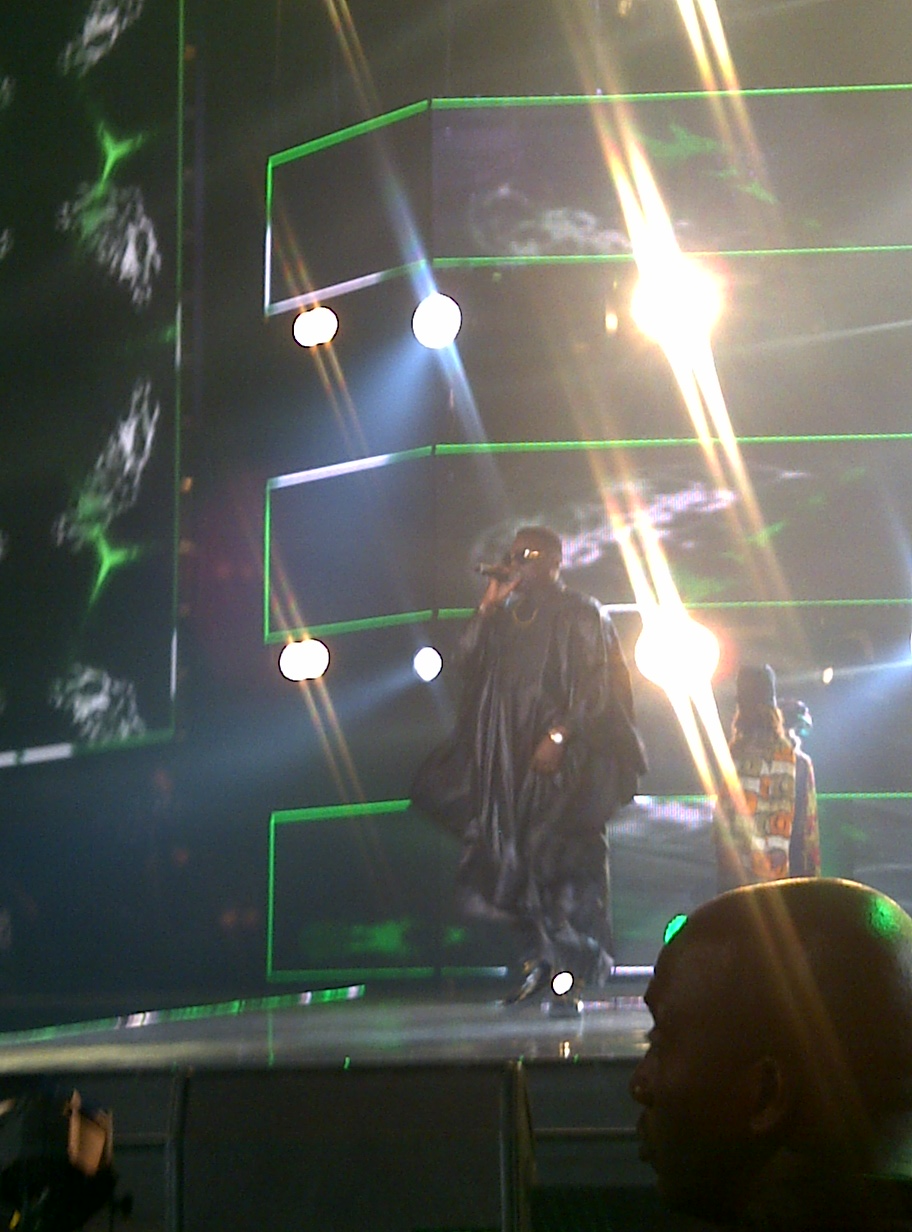 Dr SID at ICC Durban